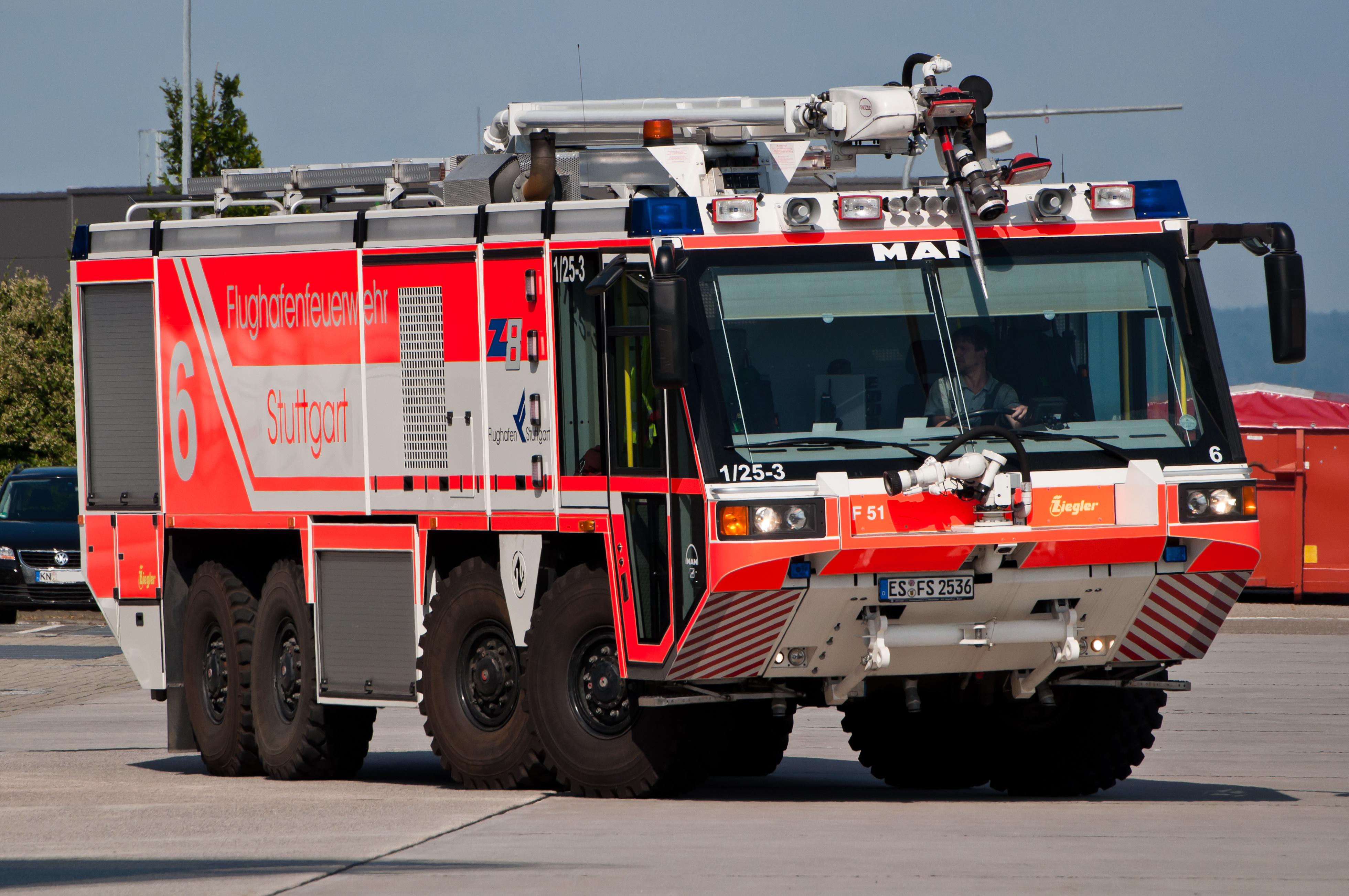 MAN / Ziegler airport crash tender FLF 60-1 (1/25-3) belonging to the fire brigade of Stuttgart Airport (EDDS;STR)